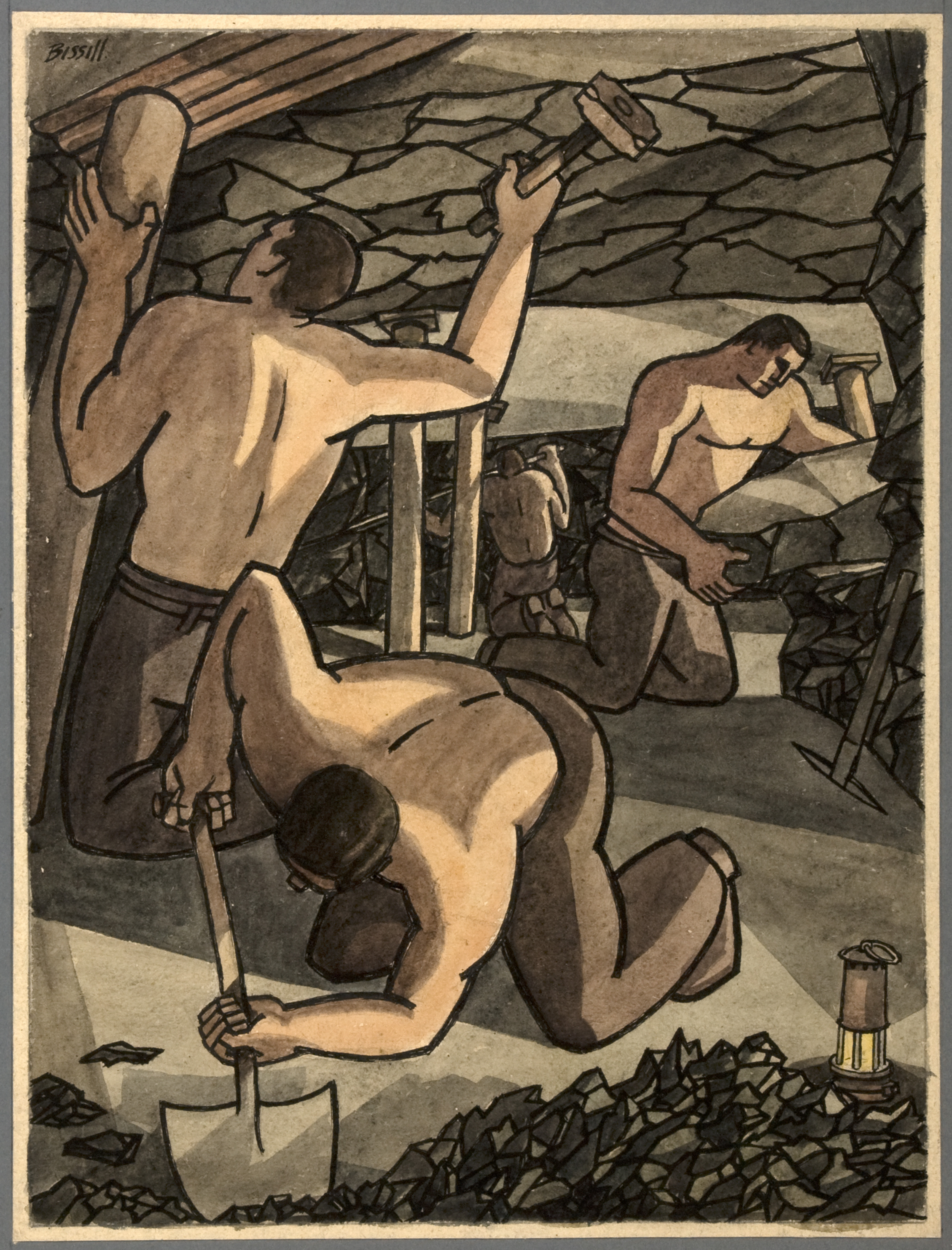 Coal miners at work, cutting coal and propping